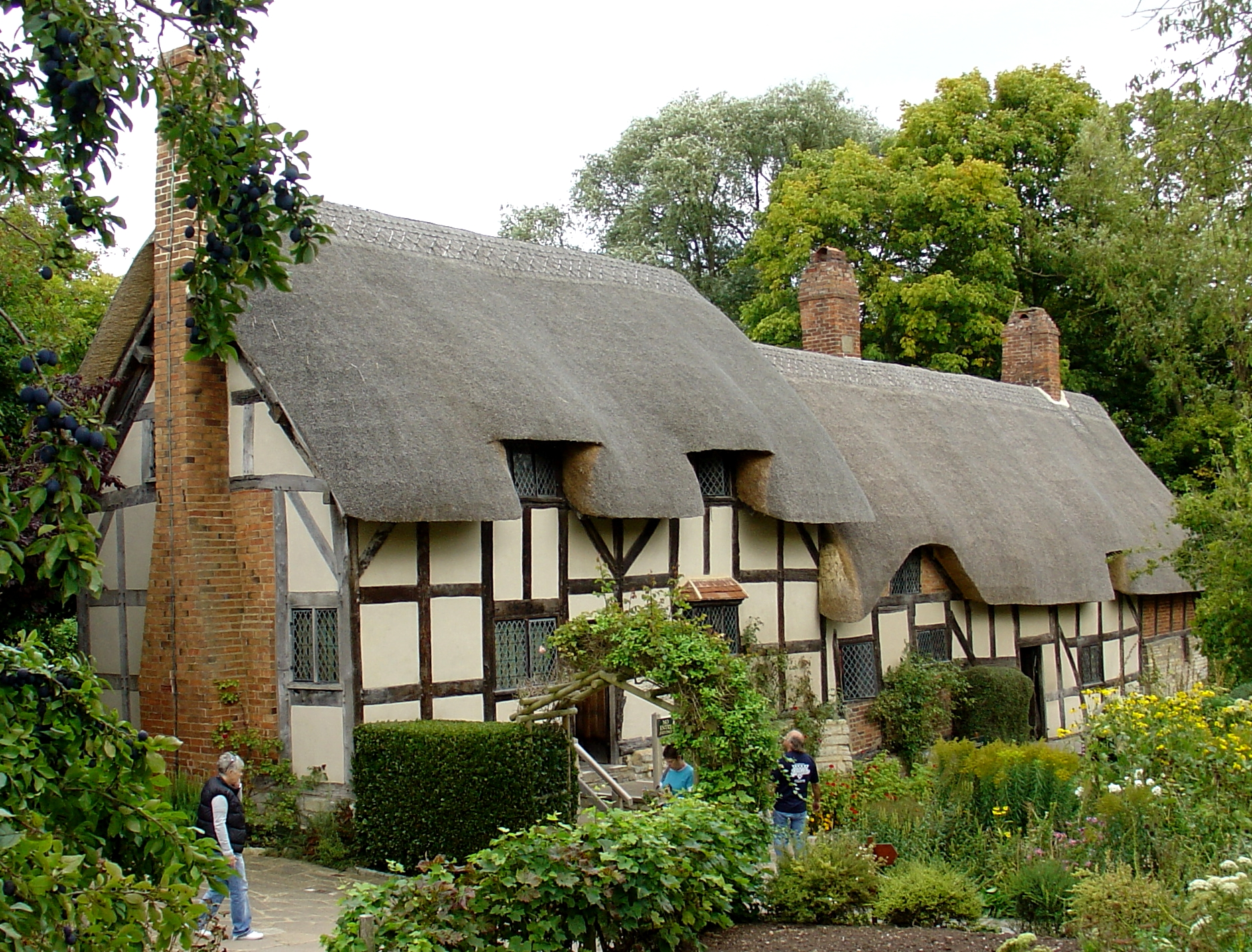 Anne Hathaway's Cottage at Shottery, near Stratford-upon-Avon